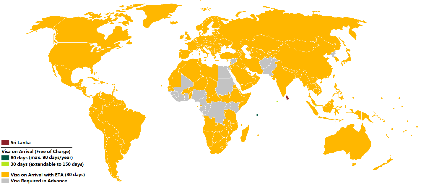 Visa policy of Sri Lanka Sri Lanka Visa on arrival - free of charge - 60 days (maximum 90 days/year) Visa on arrival - free of charge - 30 days (extendable to 150 days) Visa on arrival with ETA (30 days) Visa required in advance